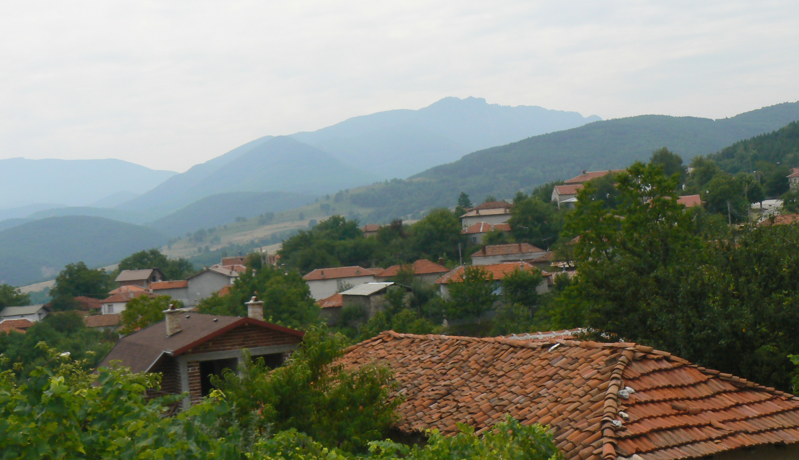 View from the Oreshetz village (district Plovdiv), Bulgaria